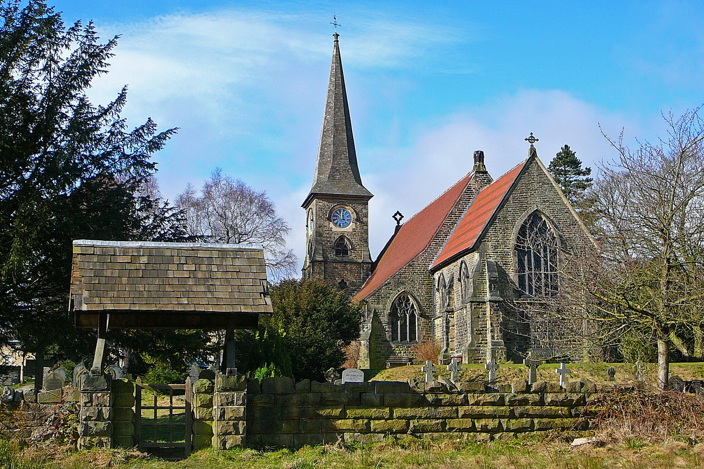 Near Meltham, Huddersfield, West Yorkshire